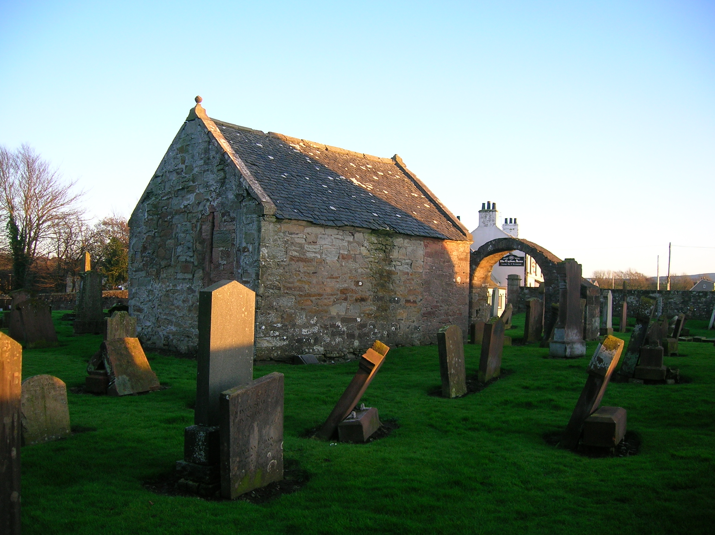 The Hamilton Aisle and Southern transept arch, Coylton old parish church and cemetery, Low Coylton, East Ayrshire, Scotland.